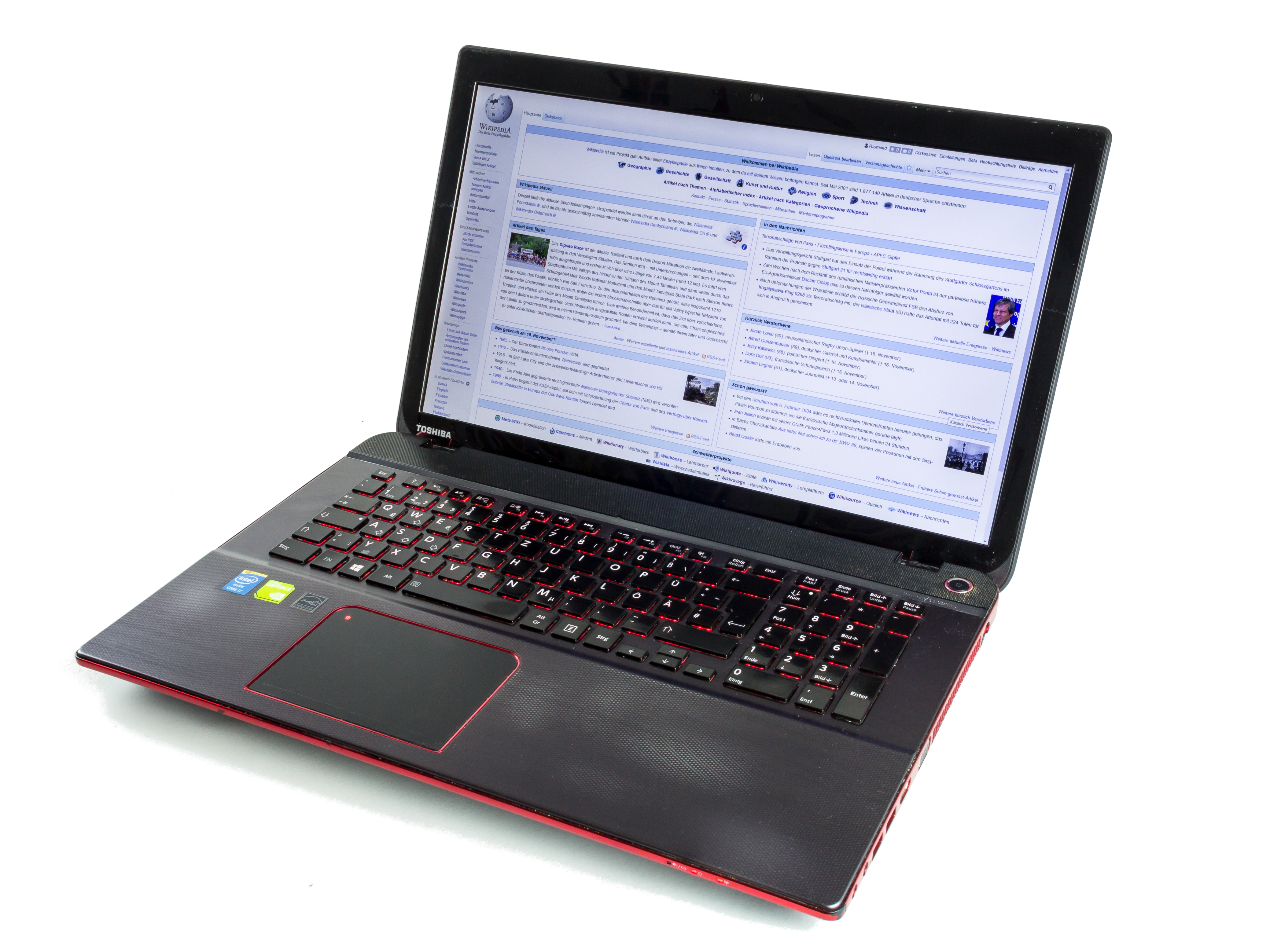 Toshiba Qosmio X70-A-12N PSPLTE with German keyboard layout and mainpage of the German Wikipedia on the screen